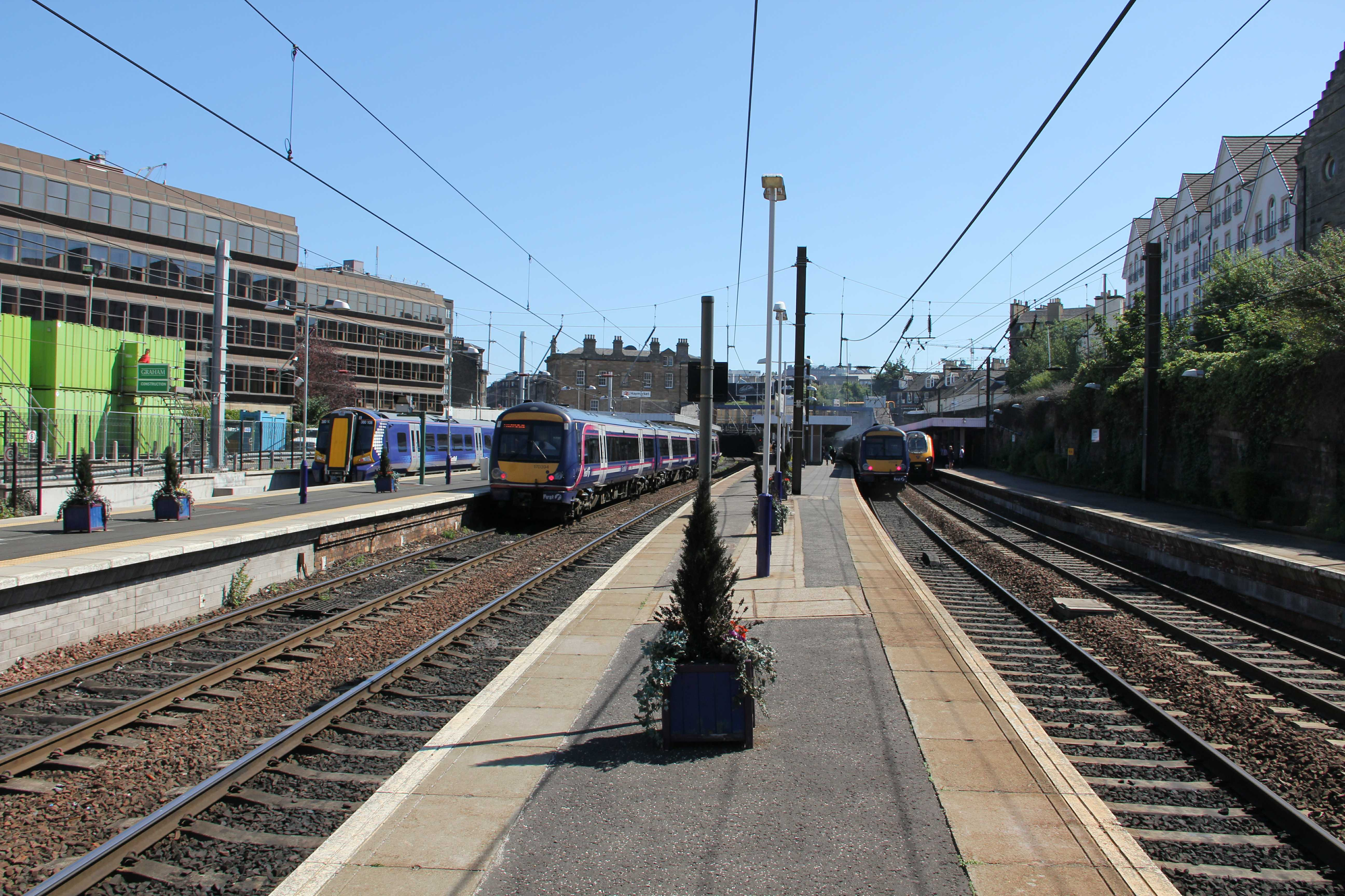 Haymarket railway station showing all platforms electrified with 380108 in platform 0; 170394 in Platform 1; 170395 in Platform 3 and 221115 in Platform 4